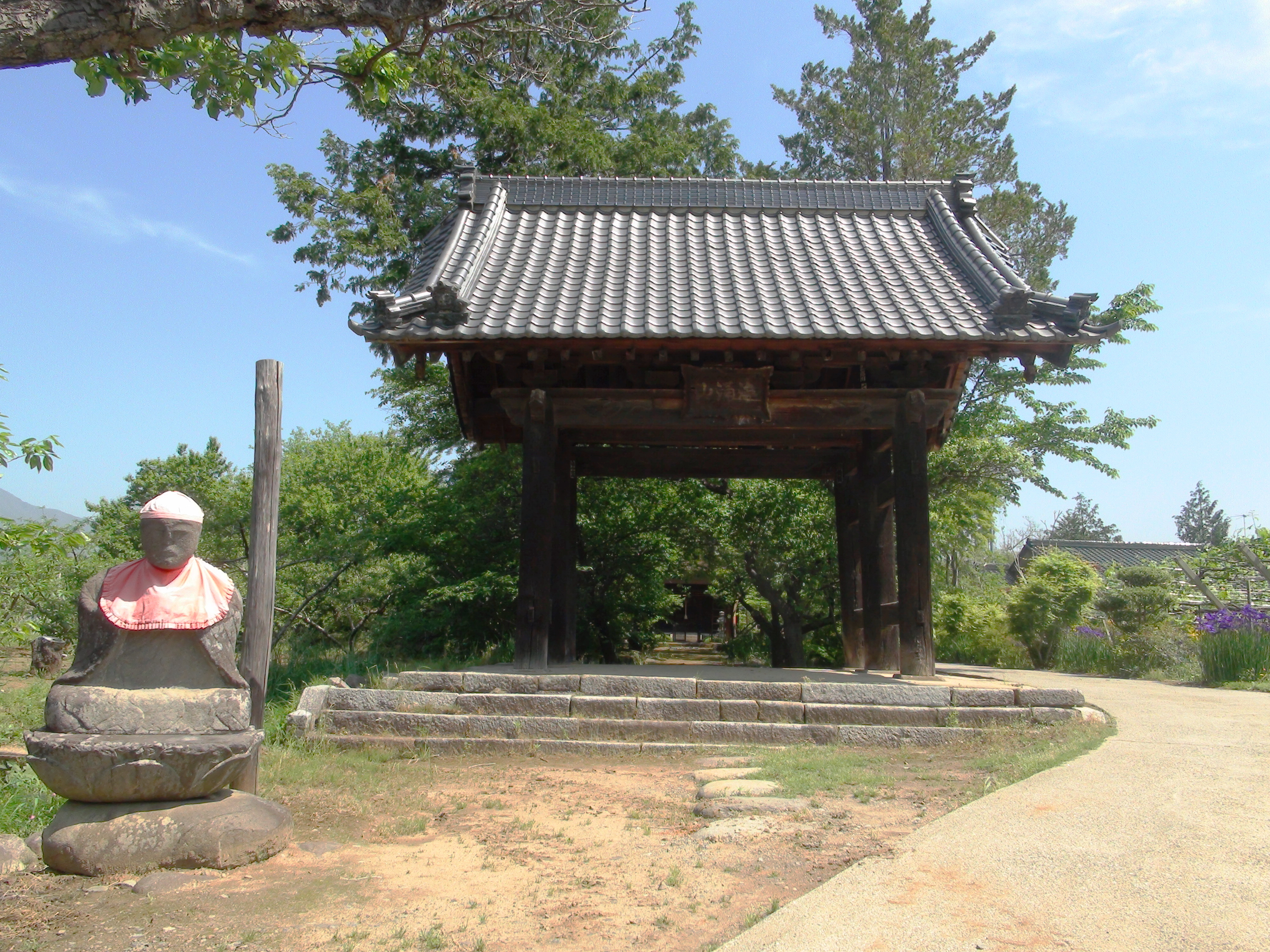 Seihaku-ji Temple main gate